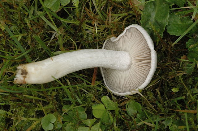 Lyophyllum connatum from Commanster, Belgium. The determination of the species shown in this picture has been verified.